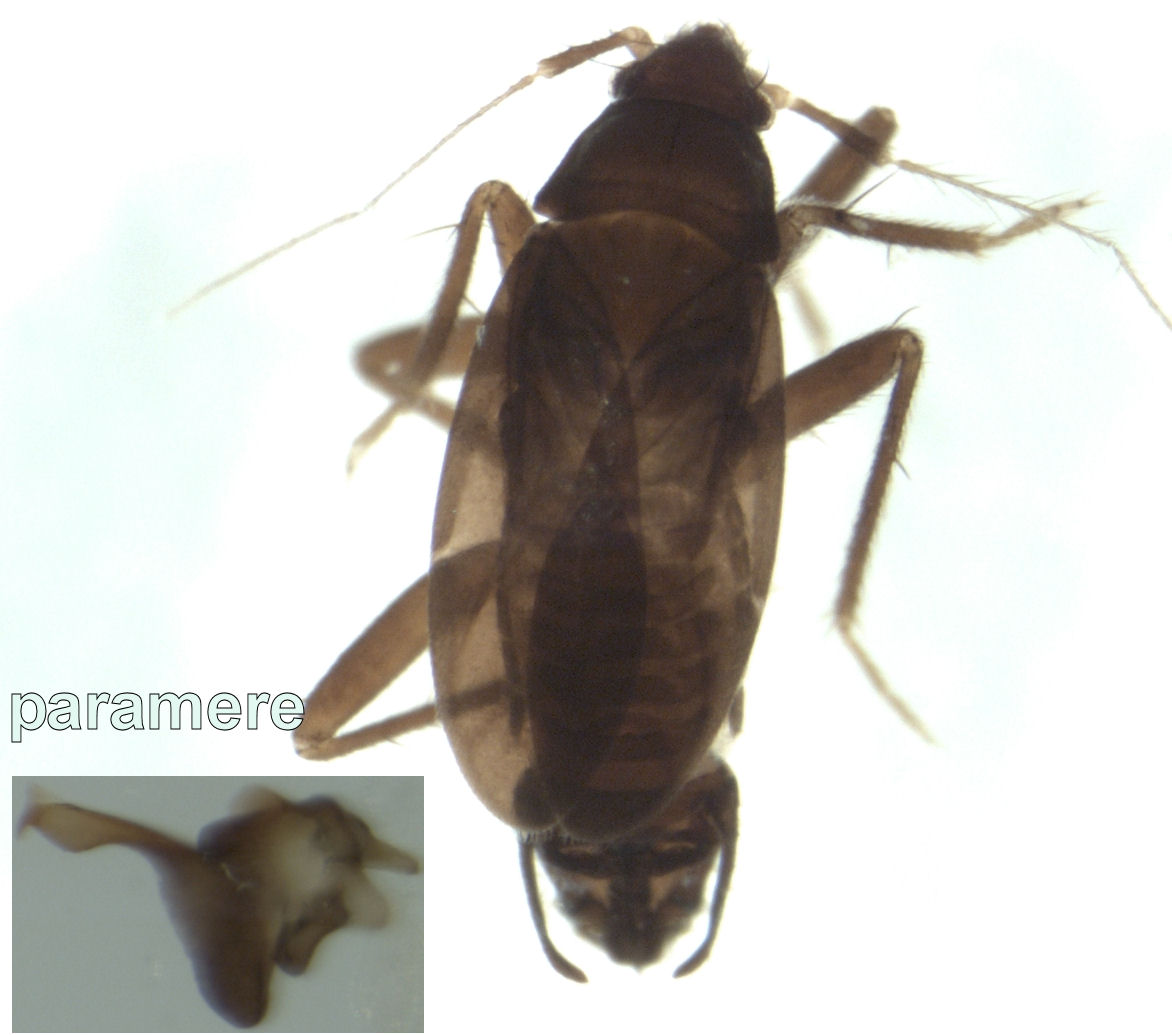 adult male Ceratocombus aotearoae or near new species from Maungatautari, New Zealand WO